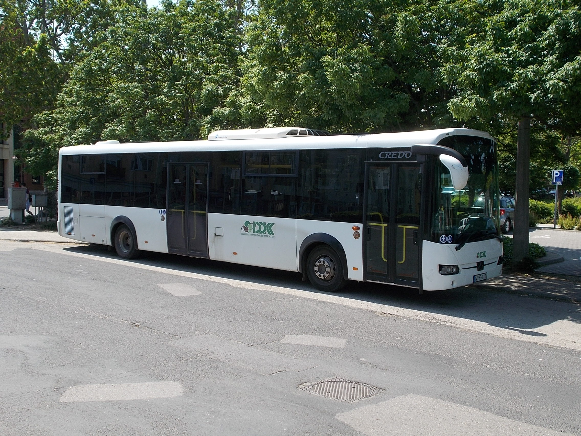 Siófok Bus Station. - Fő utca, Downtown, Siófok, Somogy County, Hungary.